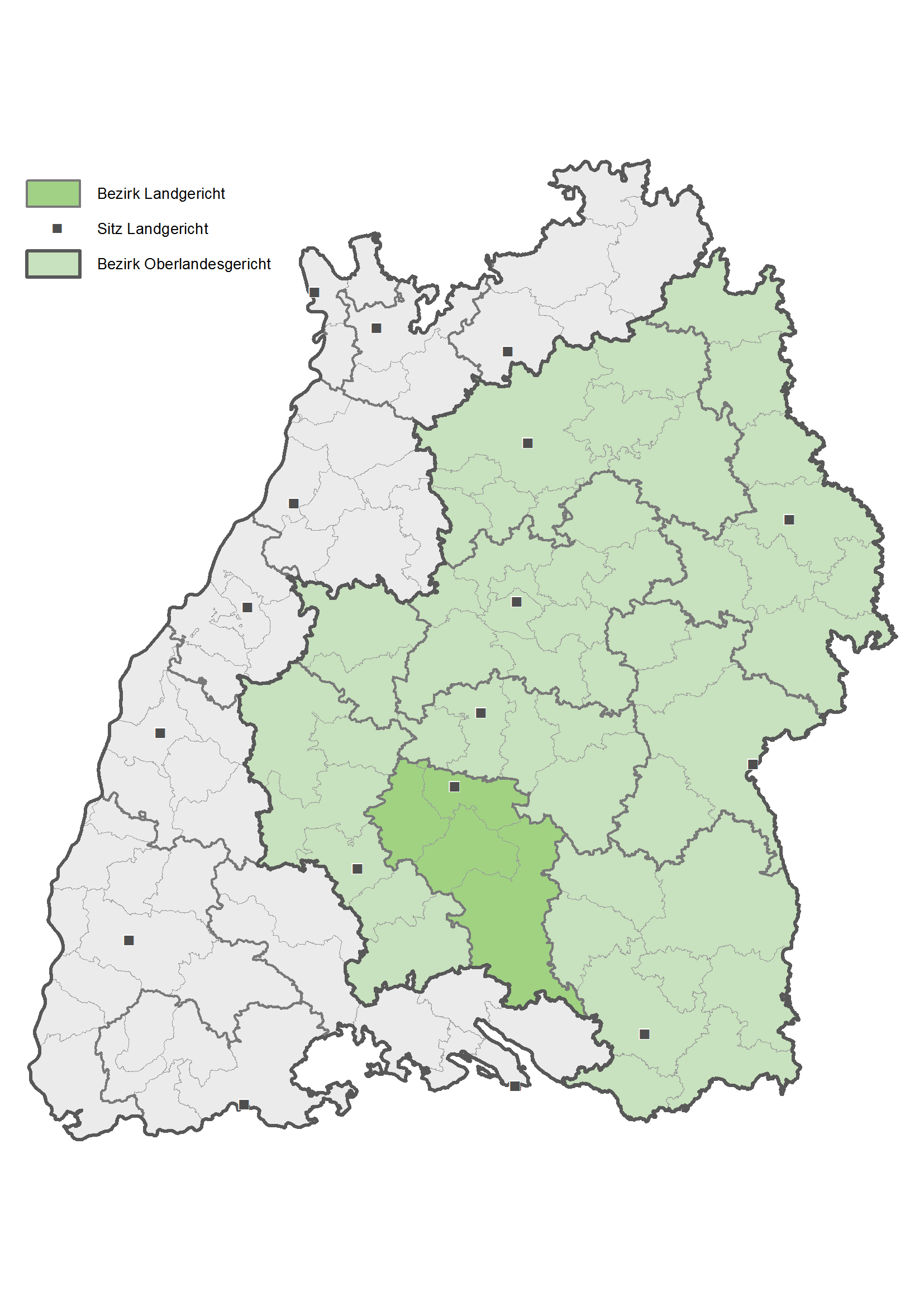 district map of the Landgericht (regional court) Hechingen in Baden-Württemberg, Germany